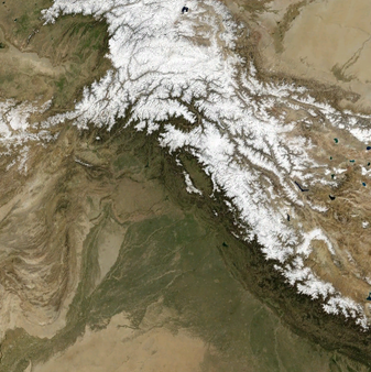 A section of the Himalayas to the east of the Punjab, as pictured by the NASA Landsat 7 Satellite